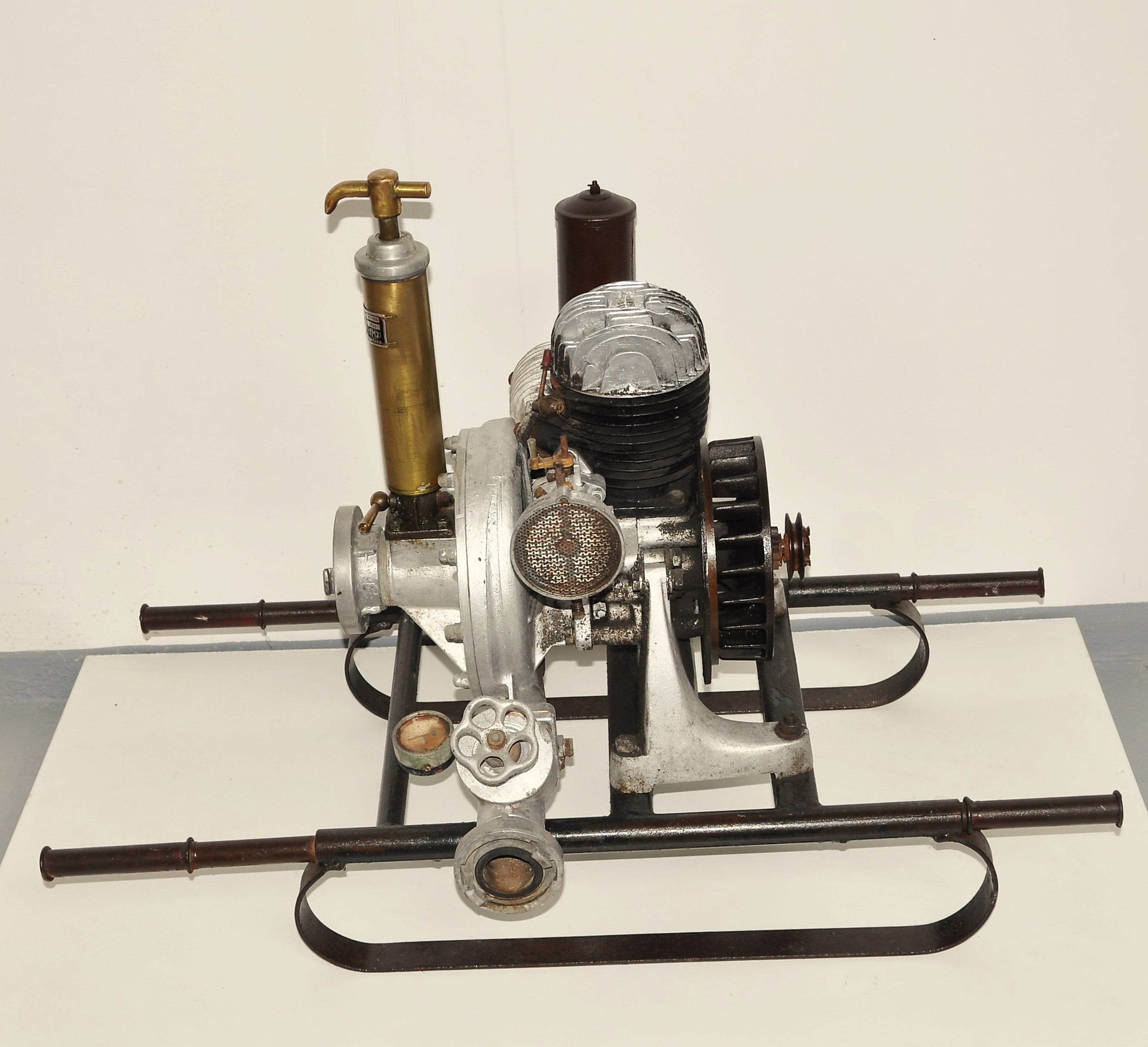 Fire extinguisher motor pump. It is located in Museum of Science and Technology Belgrade.